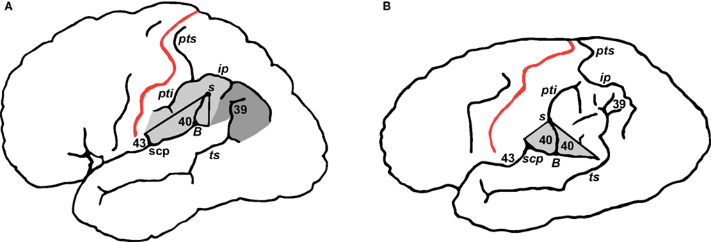 (A) Typical distribution of Brodmann’s areas 39, 40, and 43 (Brodmann, 1909). BA 40 constitutes the supramarginal gyrus, which caps the fissure between B and S. A minimal region that encloses BA 40 may be defined by the Sylvian fissure, and lines that connect the end of scp with S and the latter with the end of an unnamed sulcus that extends caudally from B. (B) These landmarks are available in Einstein’s left hemisphere and enclose an area that probably approximates a minimal surface representation of BA 40. A supramarginal gyrus containing BA 40 did not cap ascending limb of the posterior Sylvian fissure, however, because the latter was continuous with postcentral inferior.